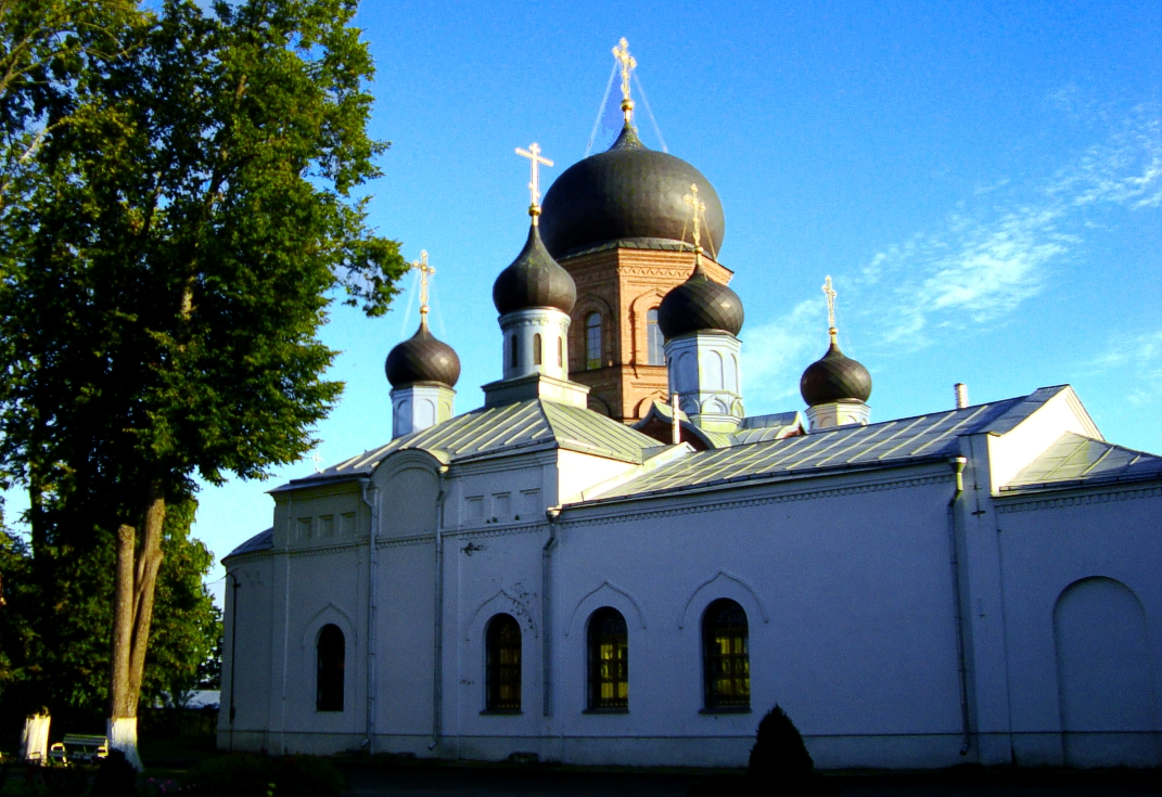 Saint Nicholas church, Vvedenski monastery, Pokrov, Russia